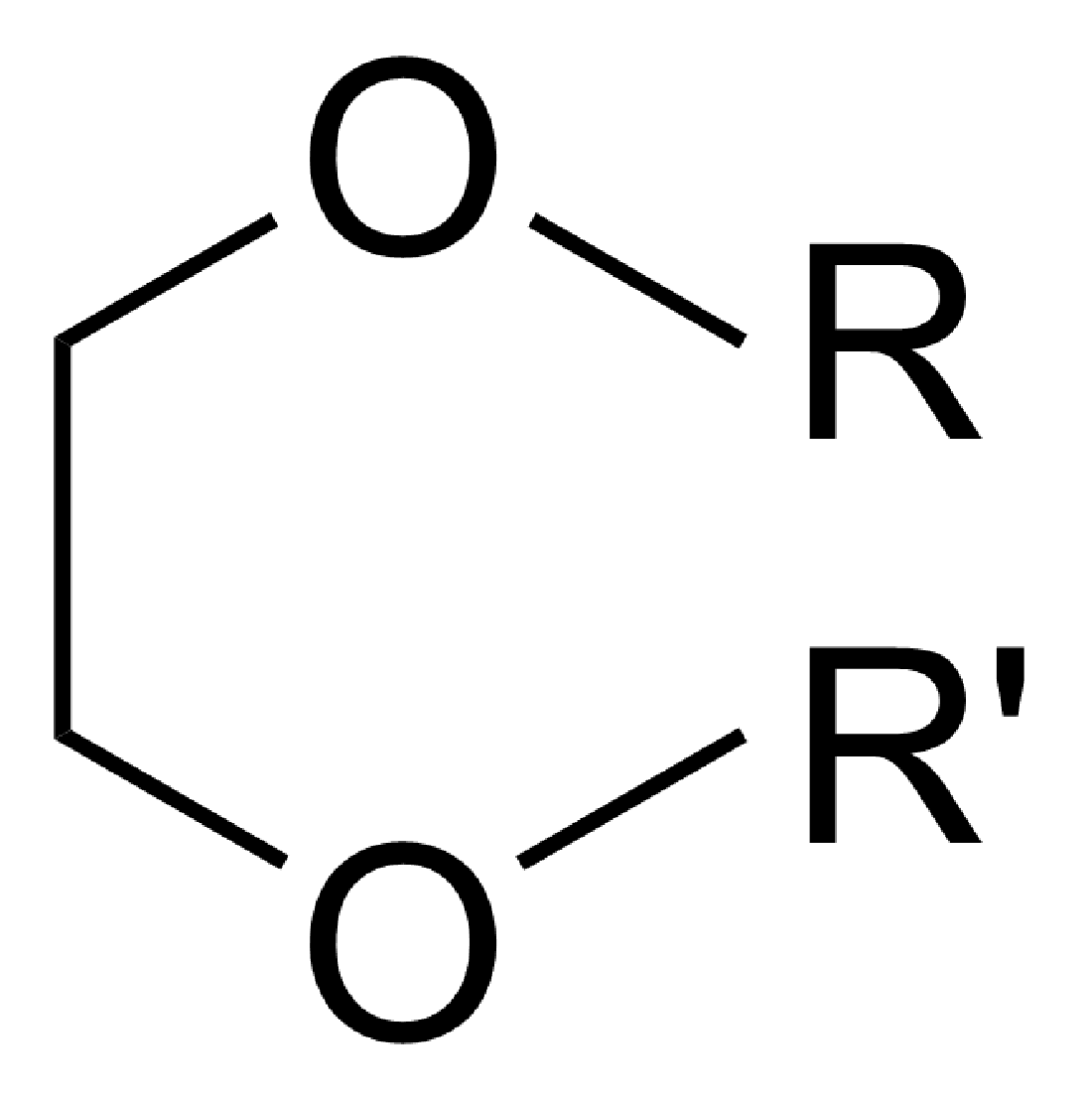 I made this, anyone can use it Comments High-resolution black/white .PNG made with ChemDraw — see WikiProject Chemistry - structure drawing for detailed instructions. Please drop me a note if you need the source file.